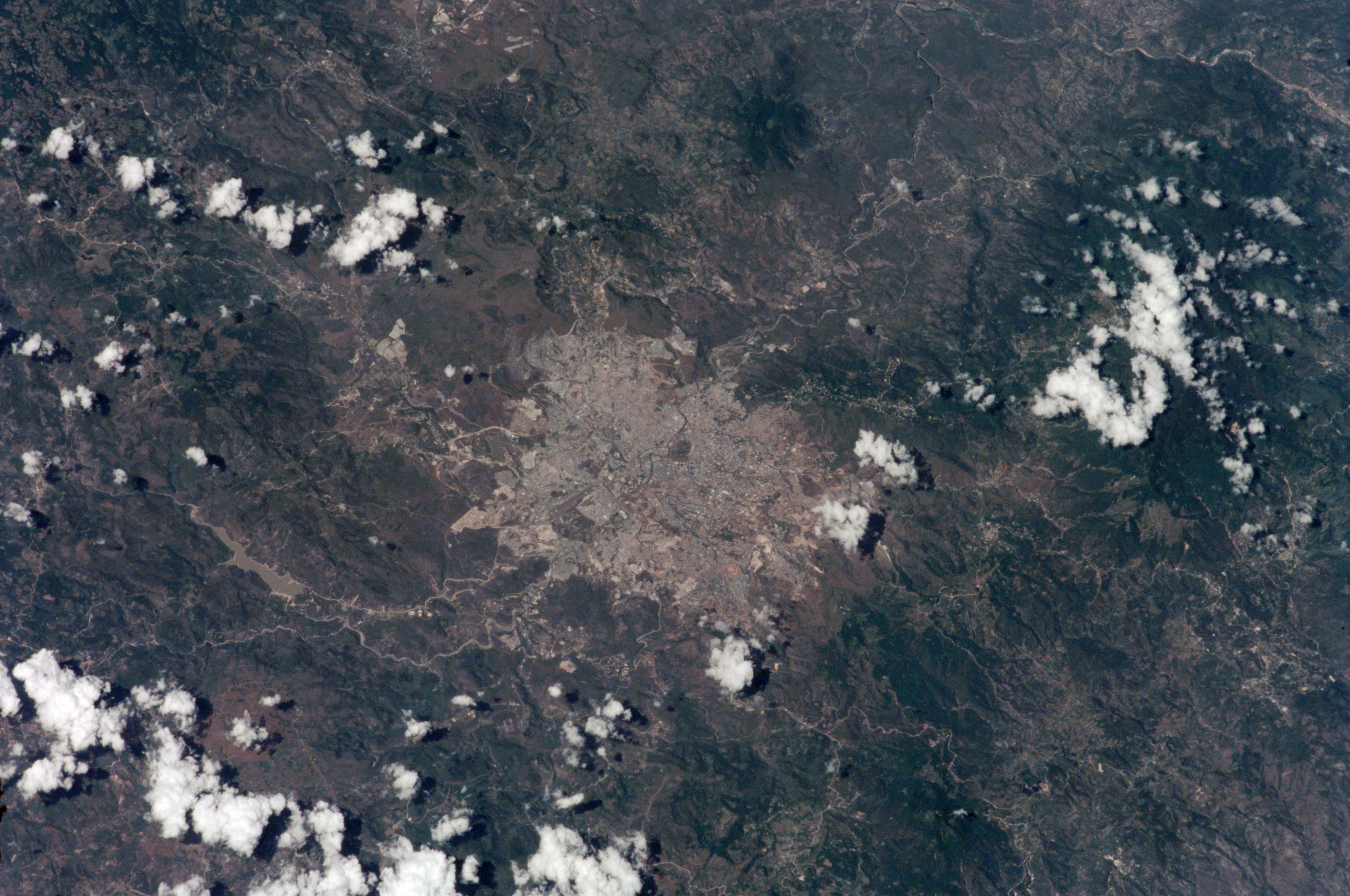 Astronaut Photo of Tegucigalpa, Honduras taken from the International Space Station (ISS) during Expedition 1 on January 16, 2001.